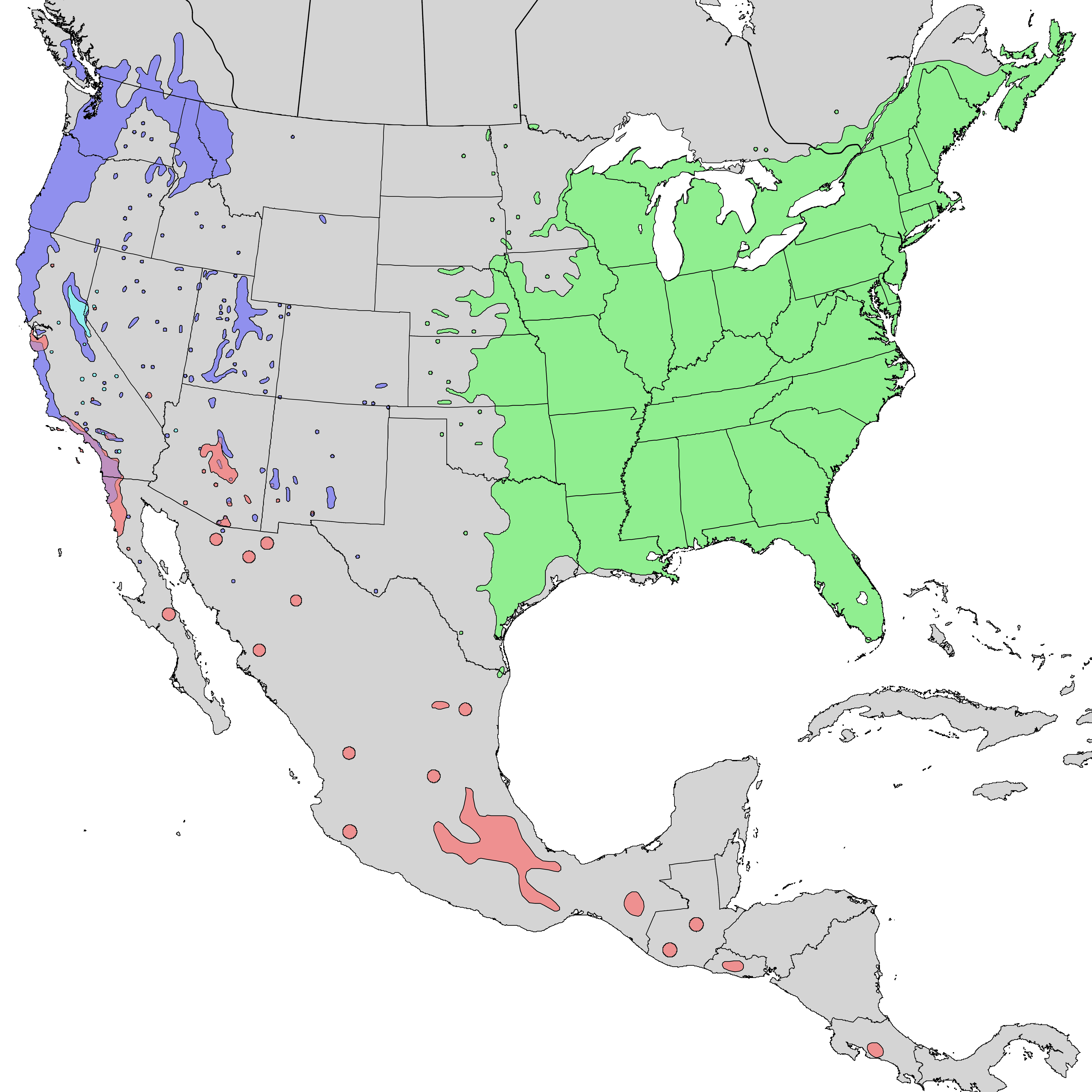 Natural distribution map for the North American Sambucus nigra (black & blue elderberry) subspecies: Sambucus nigra subsp. canadensis (green, from Little's S. canadensis map and red from Little's S. mexicana Presl map) Sambucus nigra subsp. cerulea (dark blue, from Little's S. glauca map and light blue from Little's S. velutina map)